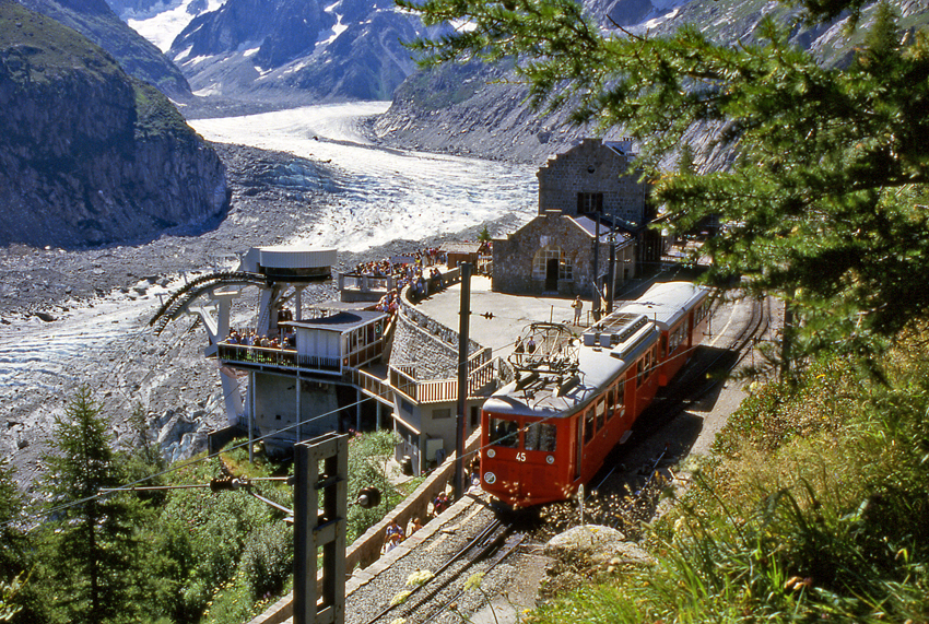 Train leaving Montenvers station by the Mer de Glace. The PLM advertised the area with a poster derived from this view in the 1930s. Scanned from a Fujichrome 35mm slide.